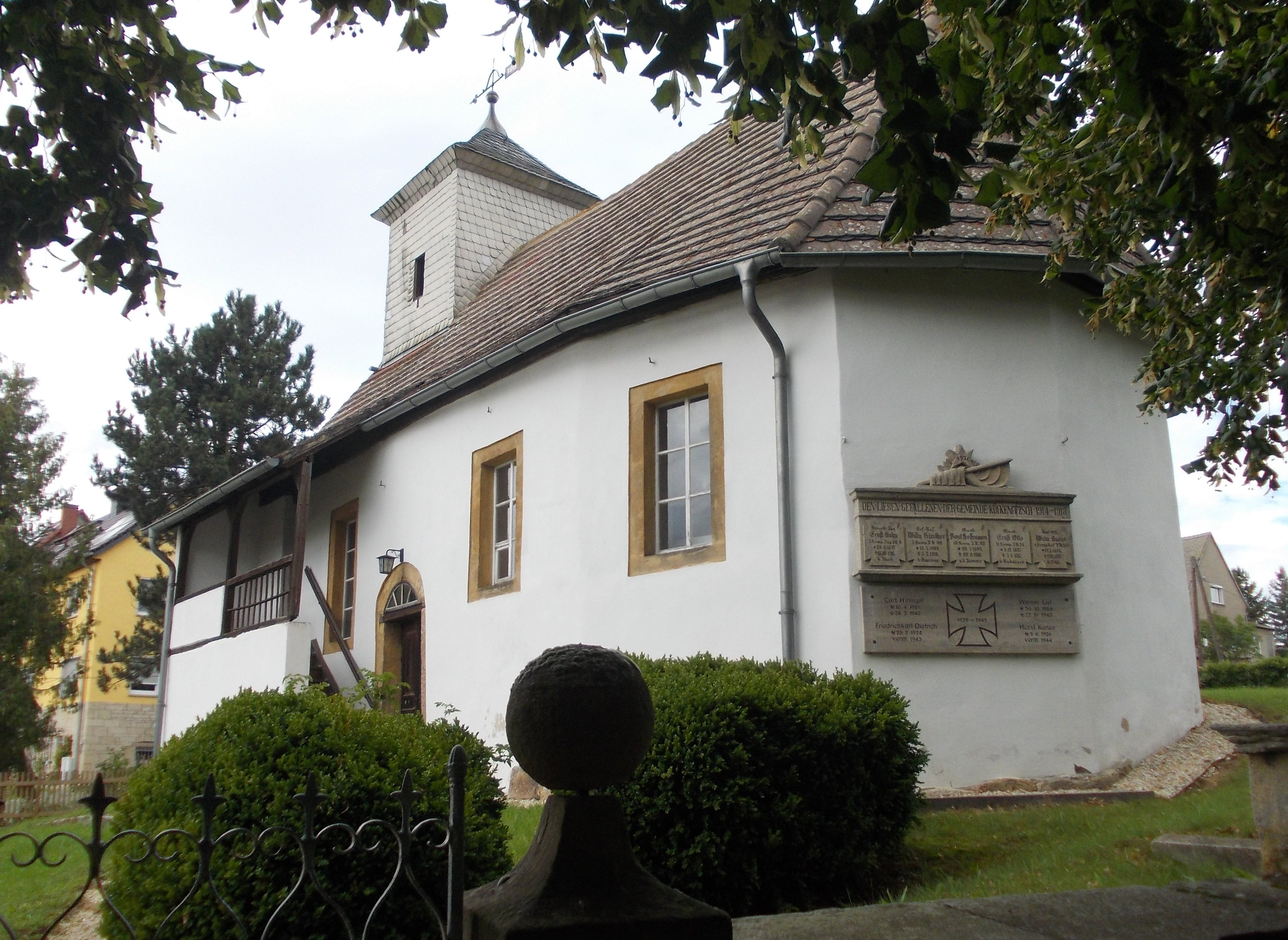 Köckenitzsch church (Molauer Land, district: Burgenlandkreis, Saxony-Anhalt) with World War I memorial plaque